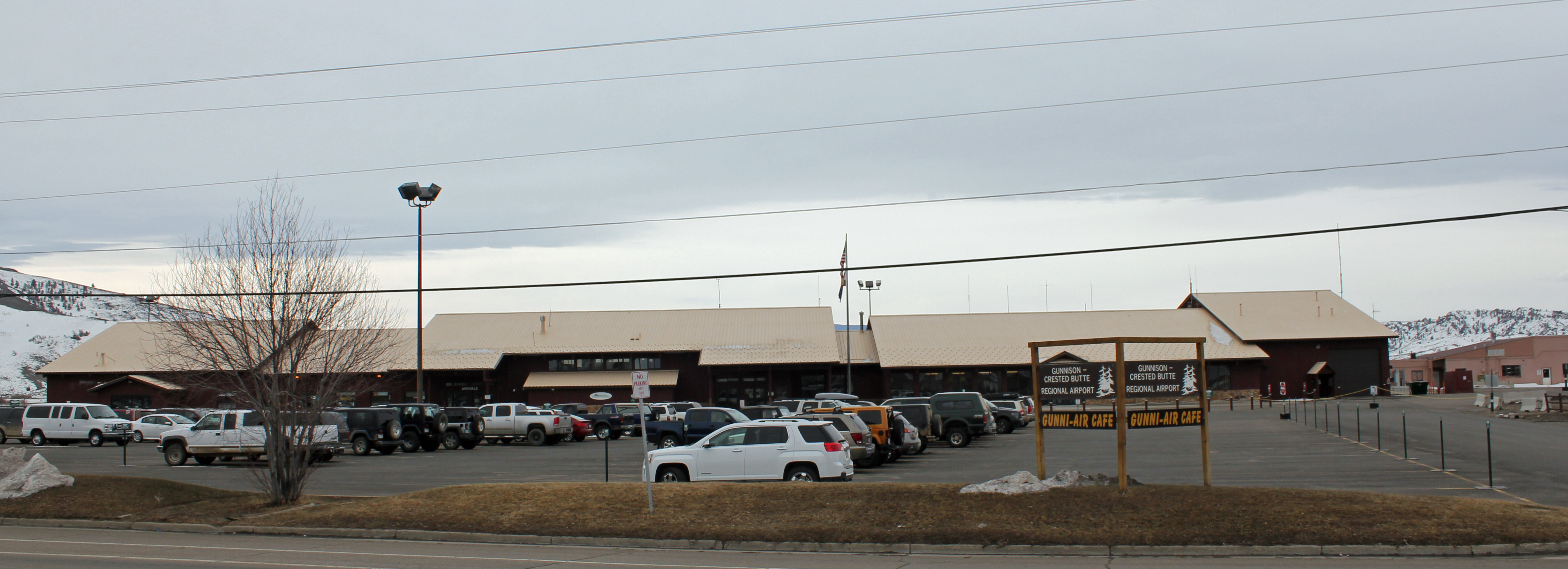 The Gunnison–Crested Butte Regional Airport terminal building, located at 711 Rio Grande Avenue, Gunnison, Colorado 81230.